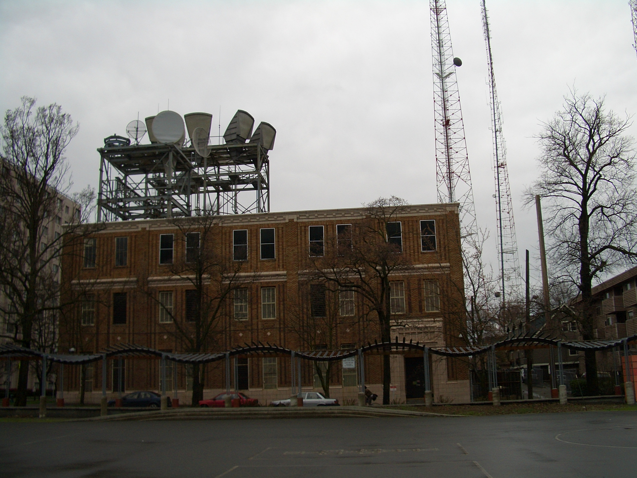 A radio station (?) near Madison St and 17th Ave, Capitol Hill, Seattle